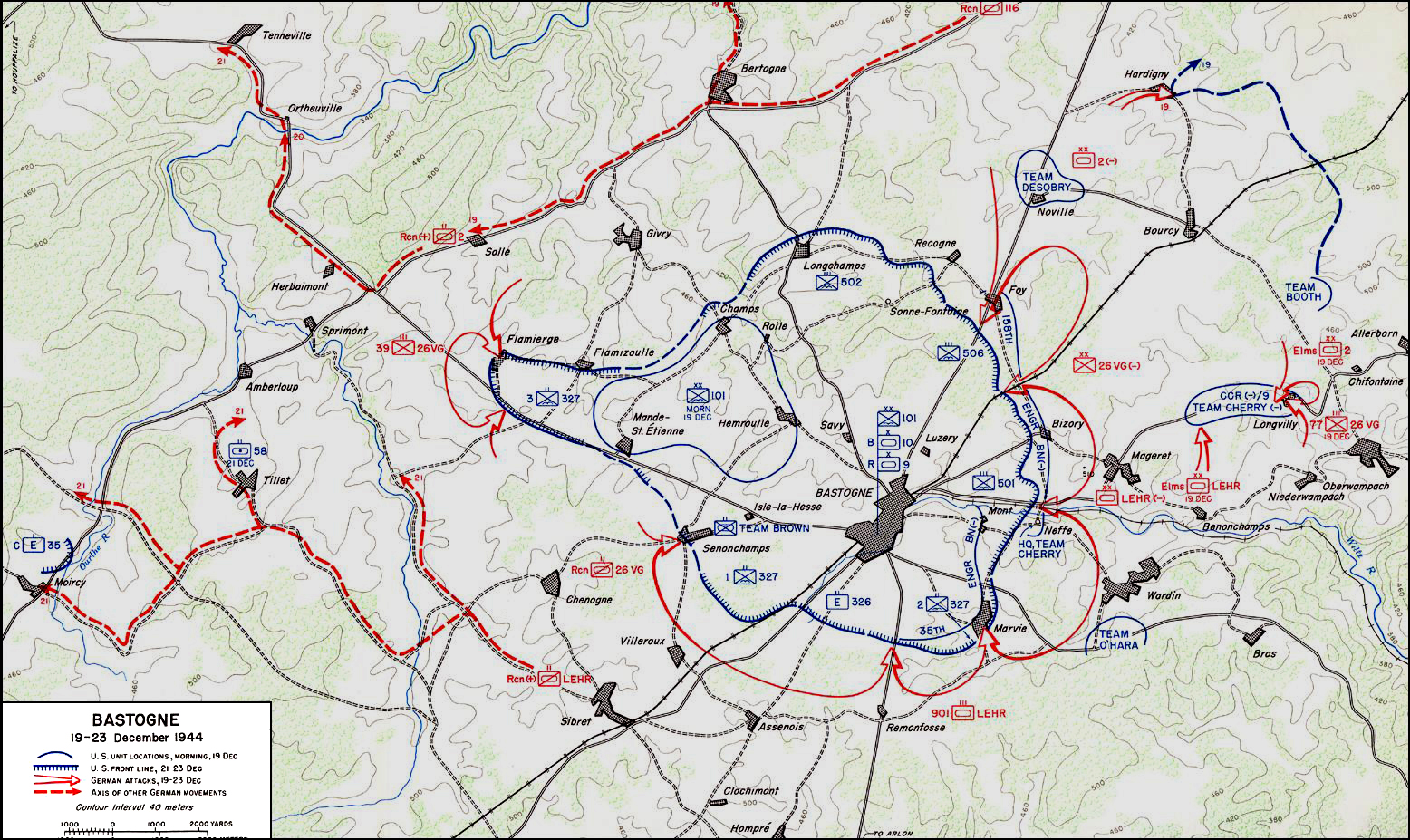 Bastogne, Battle of the Bulge